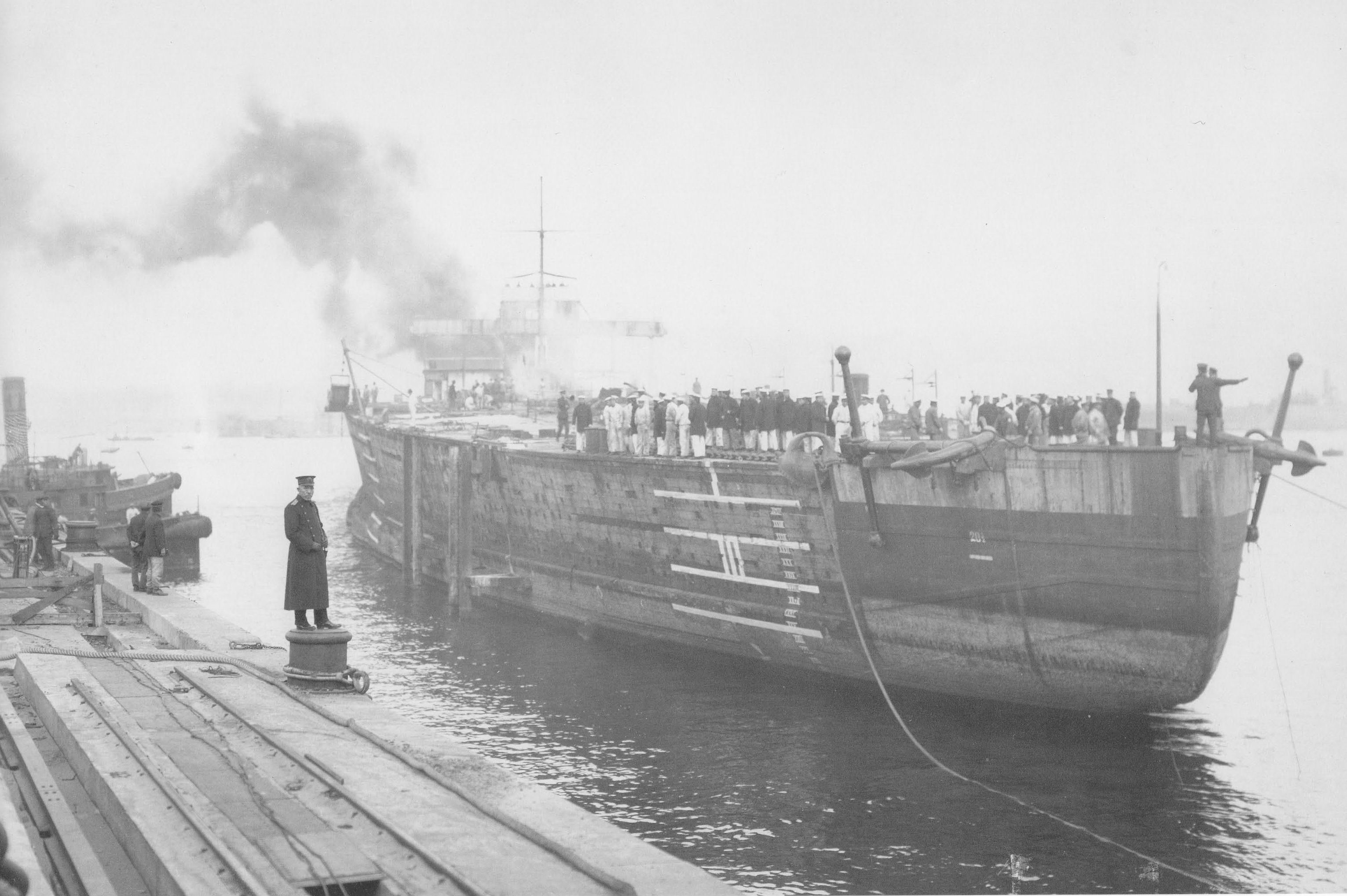 Imperial Japanese Navy battleship Tosa being prepared for scuttling at Kure, Japan.